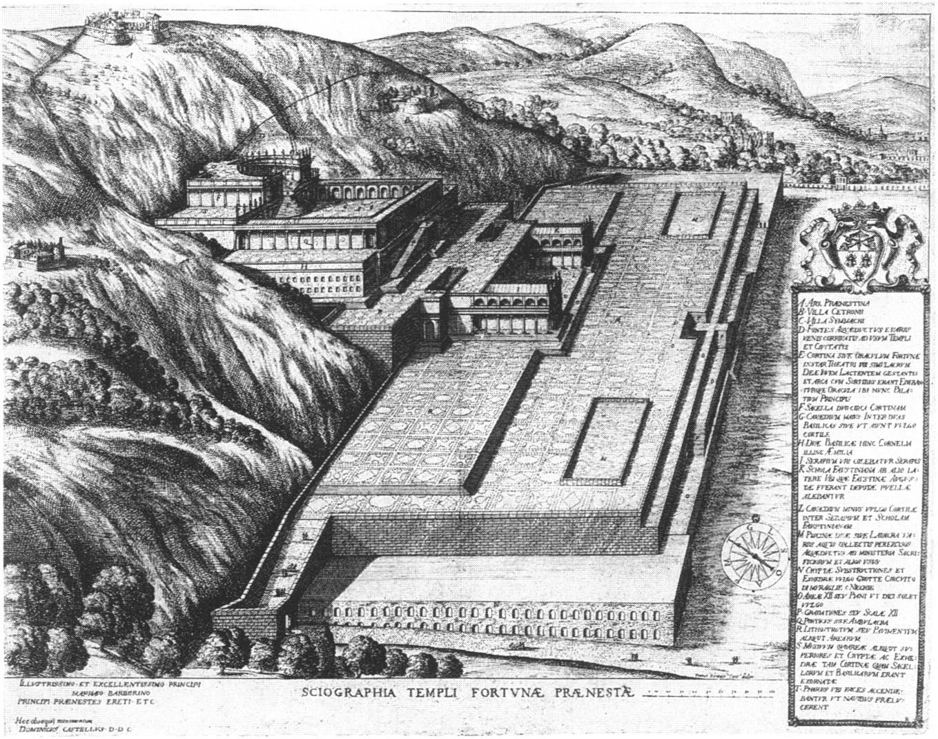 View of the temple of Fortuna Primigenia at Palestrina by Domenico Castelli following the reconstruction of Pietro da Cortona.